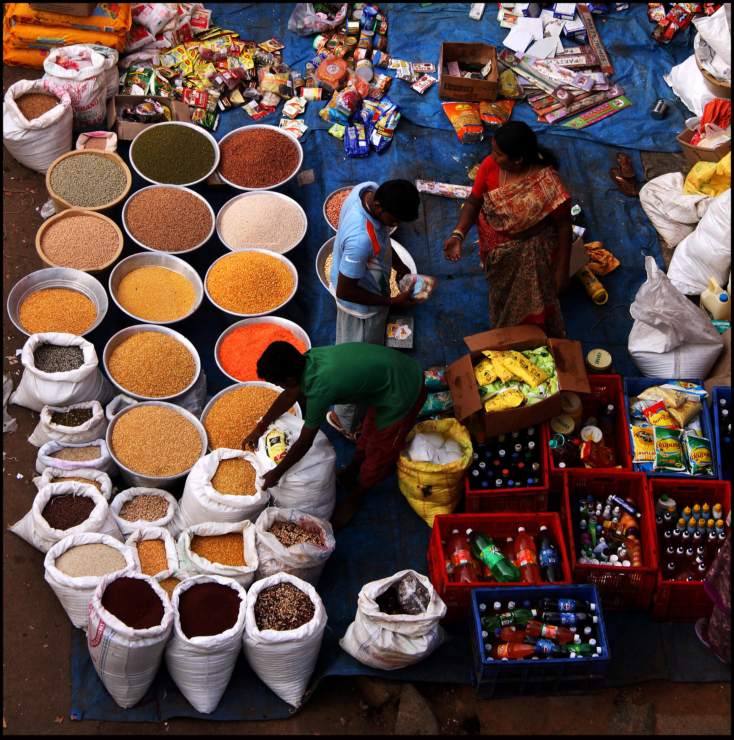 K R Market Bangalore, Karnataka, India.